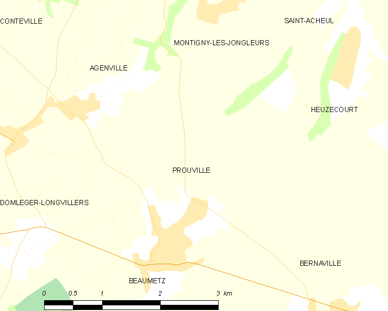 Map of French municipality Prouville